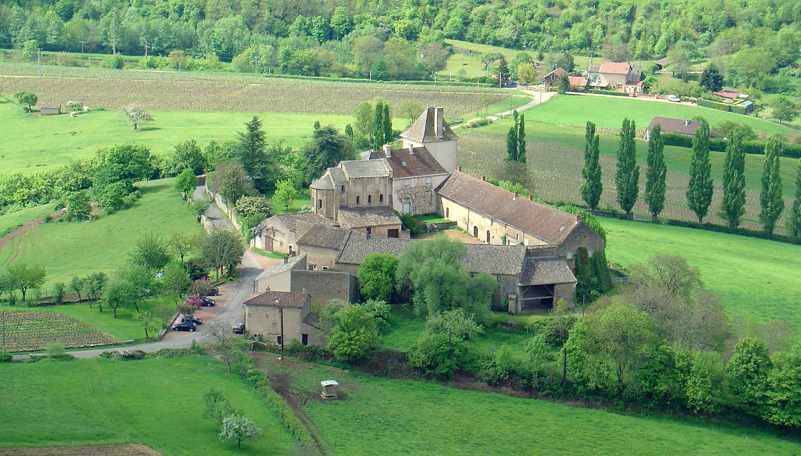 The Monks' chapel. Berzé-la-Ville, Saône-et-Loire (71) - Burgundy - France The chapel, classified "Monument historique", has romanesque frescos from the XIIe's century with Byzantine and german influences